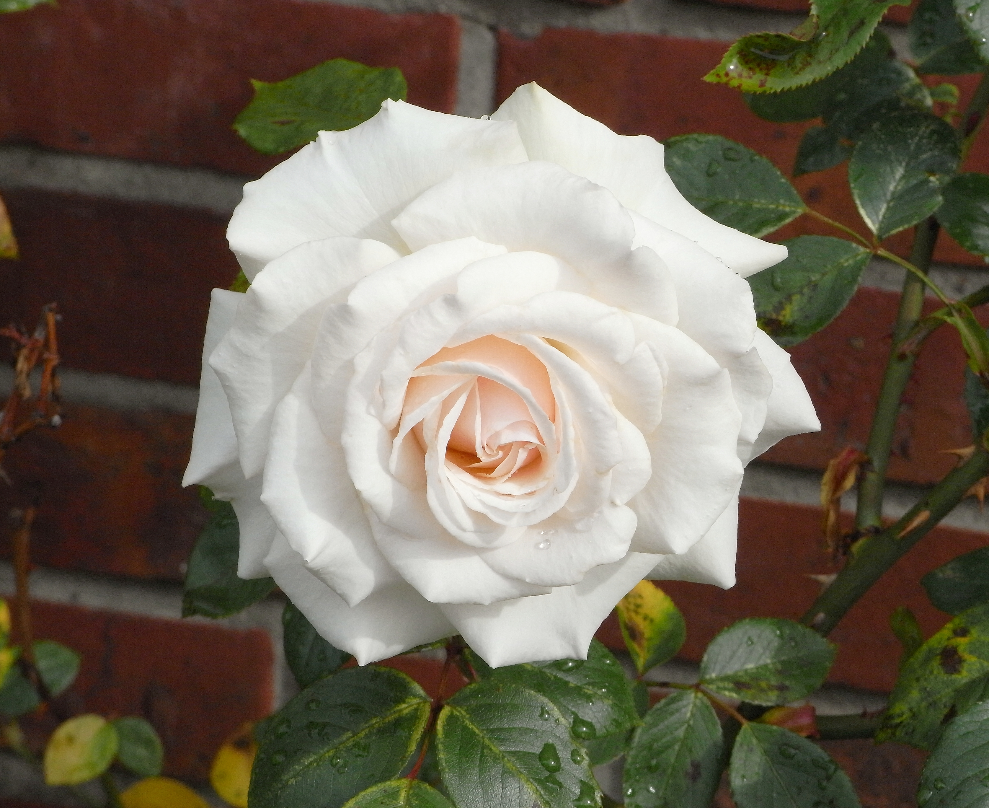 Rosa